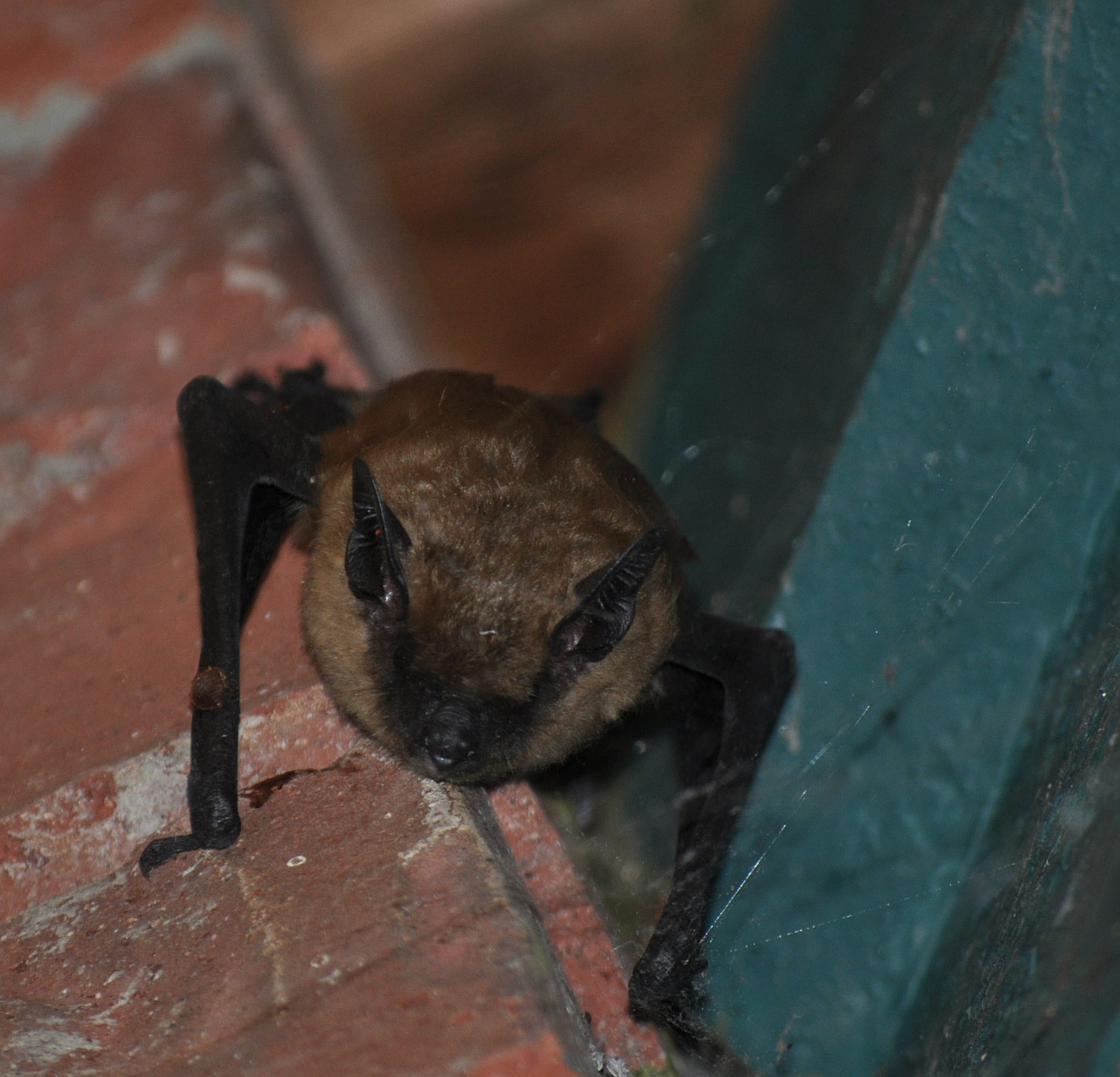 A California Myotis (Myotis californicus). This one found a hole under the roof of my house. Hopefully it will make a new home there, but it could just be staying overnight.